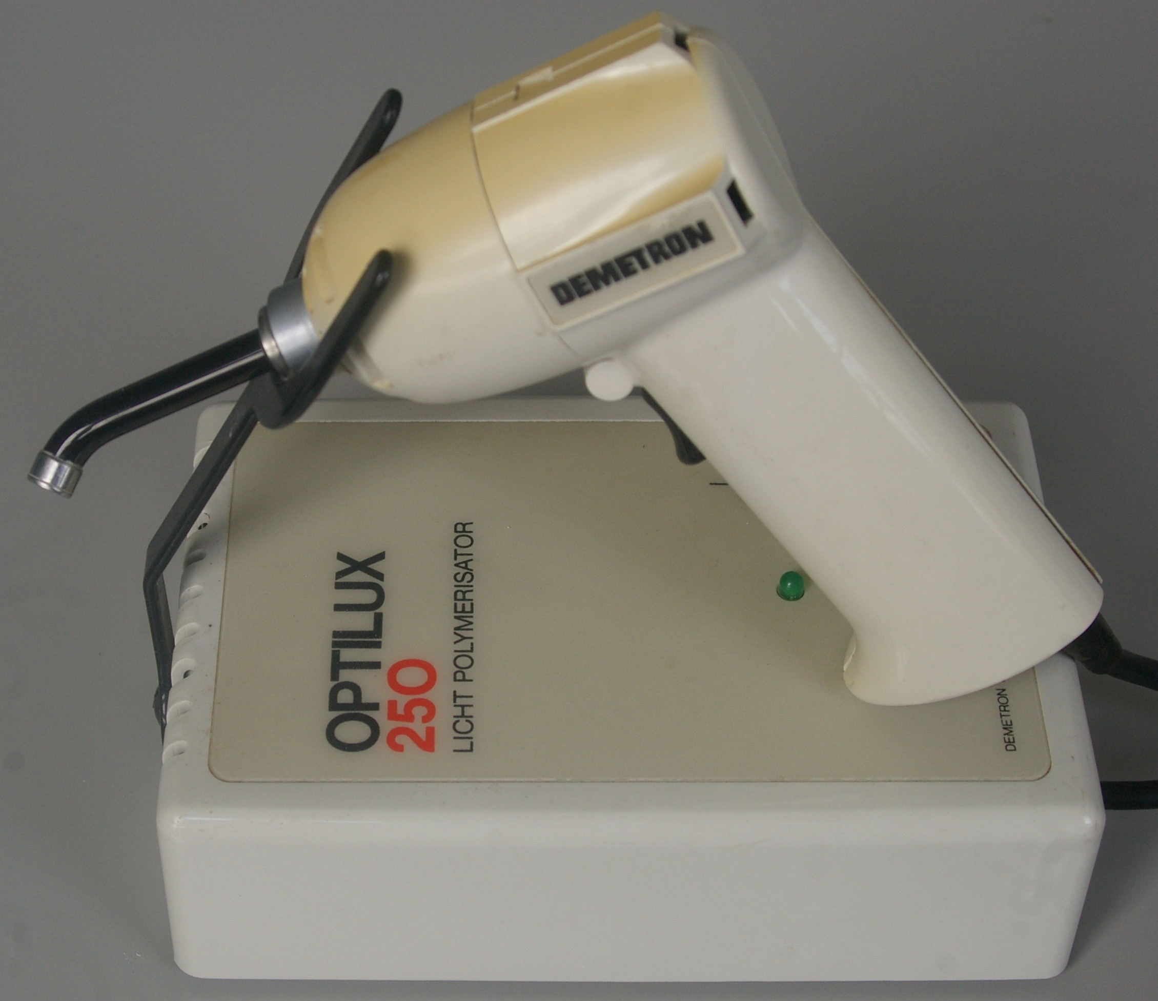 Old Demetron Optilux 250 dental curing light